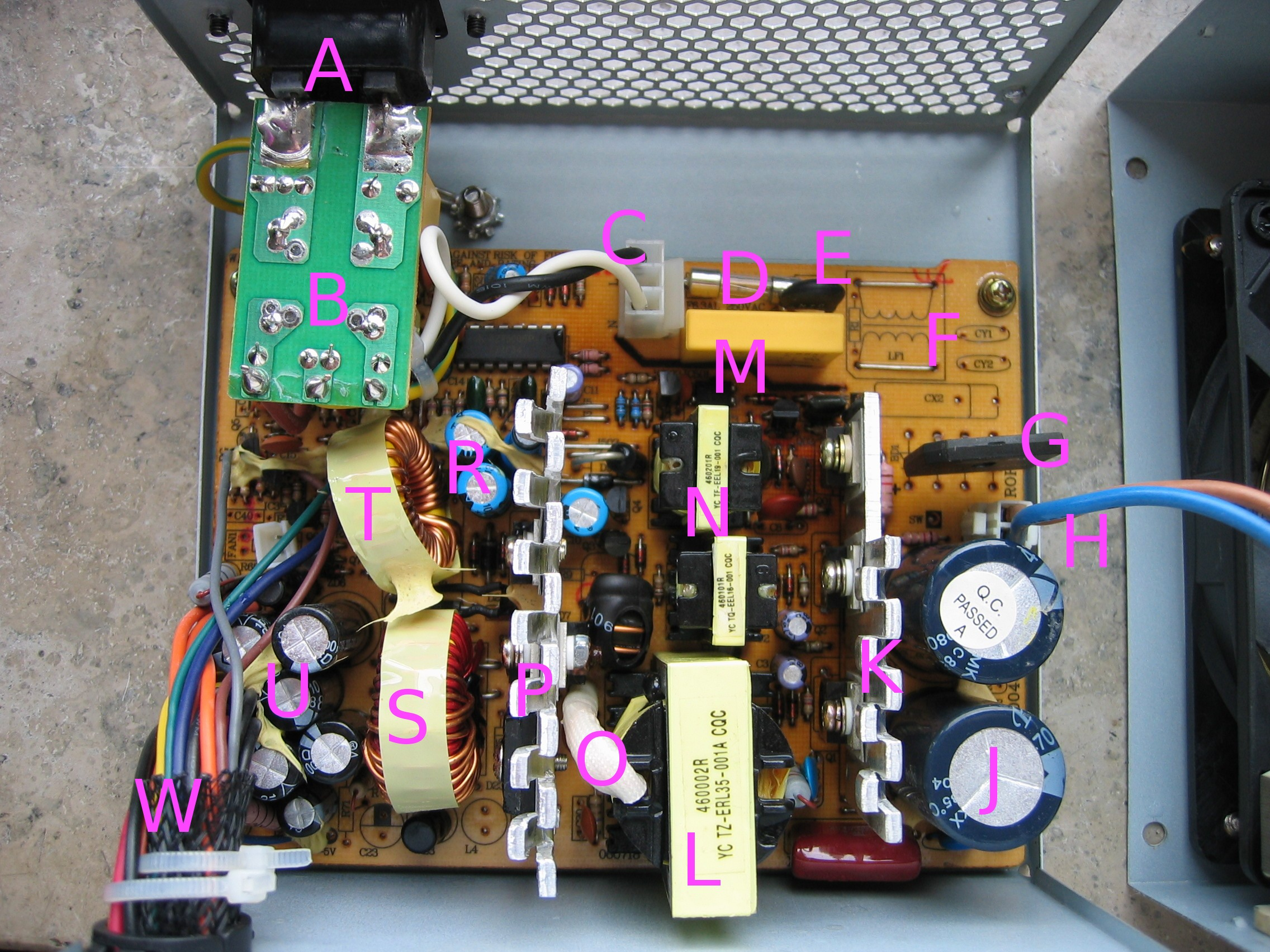 Inside ATX PC power supply A - AC Input ( 230 V AC ) B - Net Filter and chassis ground wire (yellow/green), to chassis screw C - AC filtered input D - Fuse E - NTC to limit the startup current F - Filter bypassed with two wires and moved to B to provide space for the PFC choke G - Rectifier H - PFC-choke connector, black marks SW for 115 V switch (not installed in this sample) J - Primary smoothing capacitors 2x 200 V K - Heat sink switching transistors L - Main transformer M - Optocouppler N - Standby transformer O - Common wire bunch - ground - transformer coils secondary side P - Heat sink secondary rectifier R - 5 V-SB smoothing capacitors S - 5 V and 12 V choke T - 3.3 V choke U - Smoothing capactors for 3.3 V, 5 V, 12 V - two each (these have the highest ripple current load) W - Output harness Left to K: Timing capacitors, a failure will blow Q1/Q2 and trigger the fuse Between L and N: feedback-oscillator-couppler Between N and O: 5 V to 3.3V shifting choke White Plug next to T: internal fan motor Between L and W: (not connected L4 and C23) not used -5 V